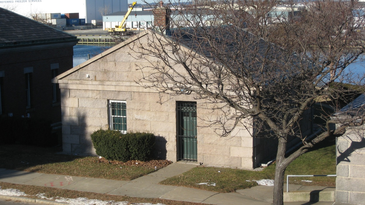 The Middle Building of the Chelsea Naval Magazine .